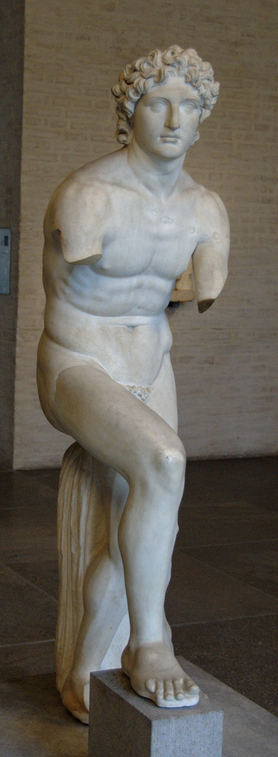 So called “Alexander Rondanini”. Ancient copy, the original belongs to a group created by Euphranor: King Philip of Macedon on his chariot lead by 4 horses; his son Alexander, taking on the chariot, holds the reins in both hands (armor and garb added the copist). Creation of the group after the Battle of Chaeronea, 338 BC.